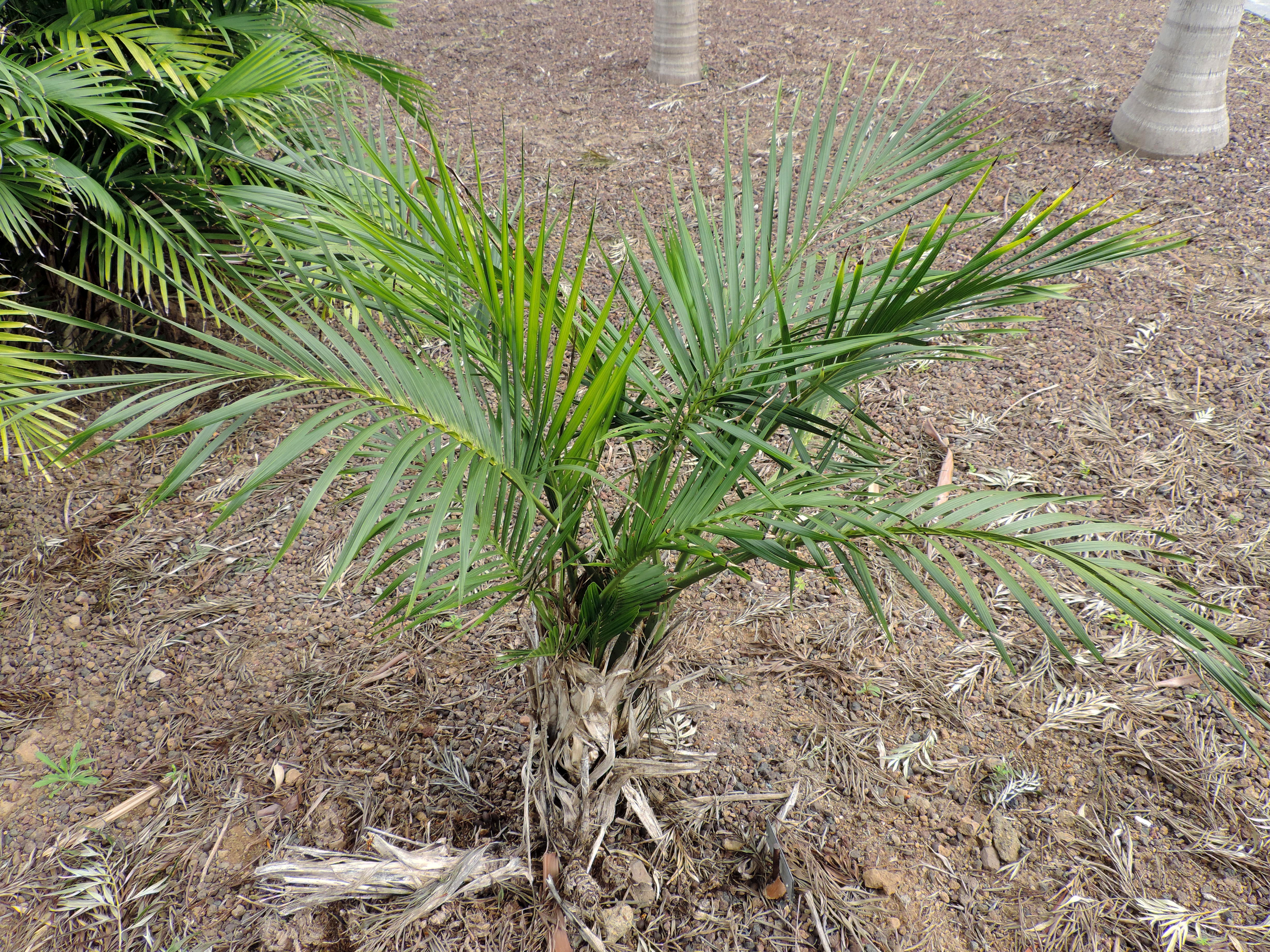 Chamaedorea cataractarum in Jardín Botánico Canario Viera y Clavijo, Gran Canaria